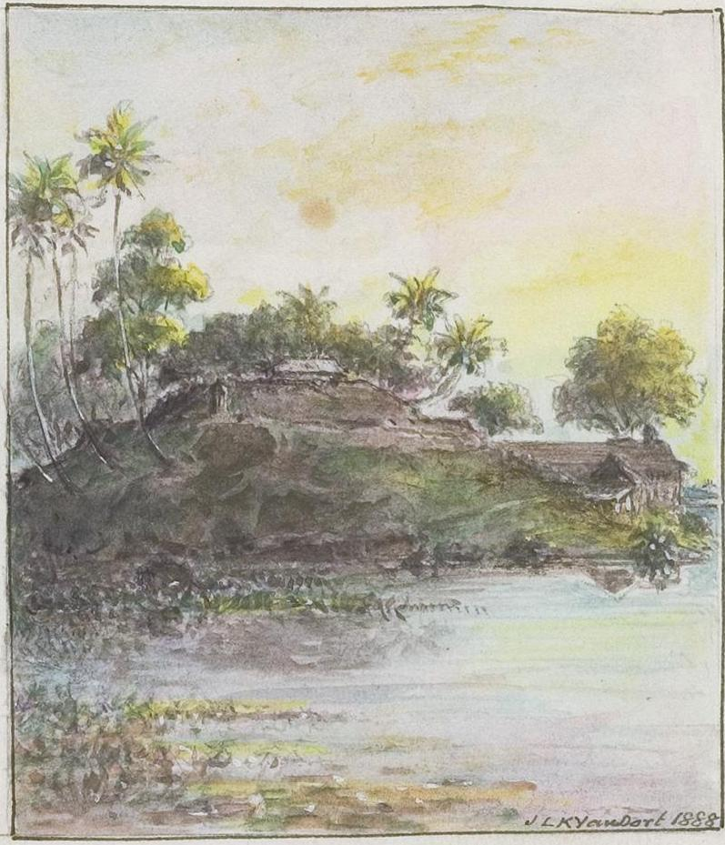 Kalutara Fort by J. L. K. van Dort (1888)